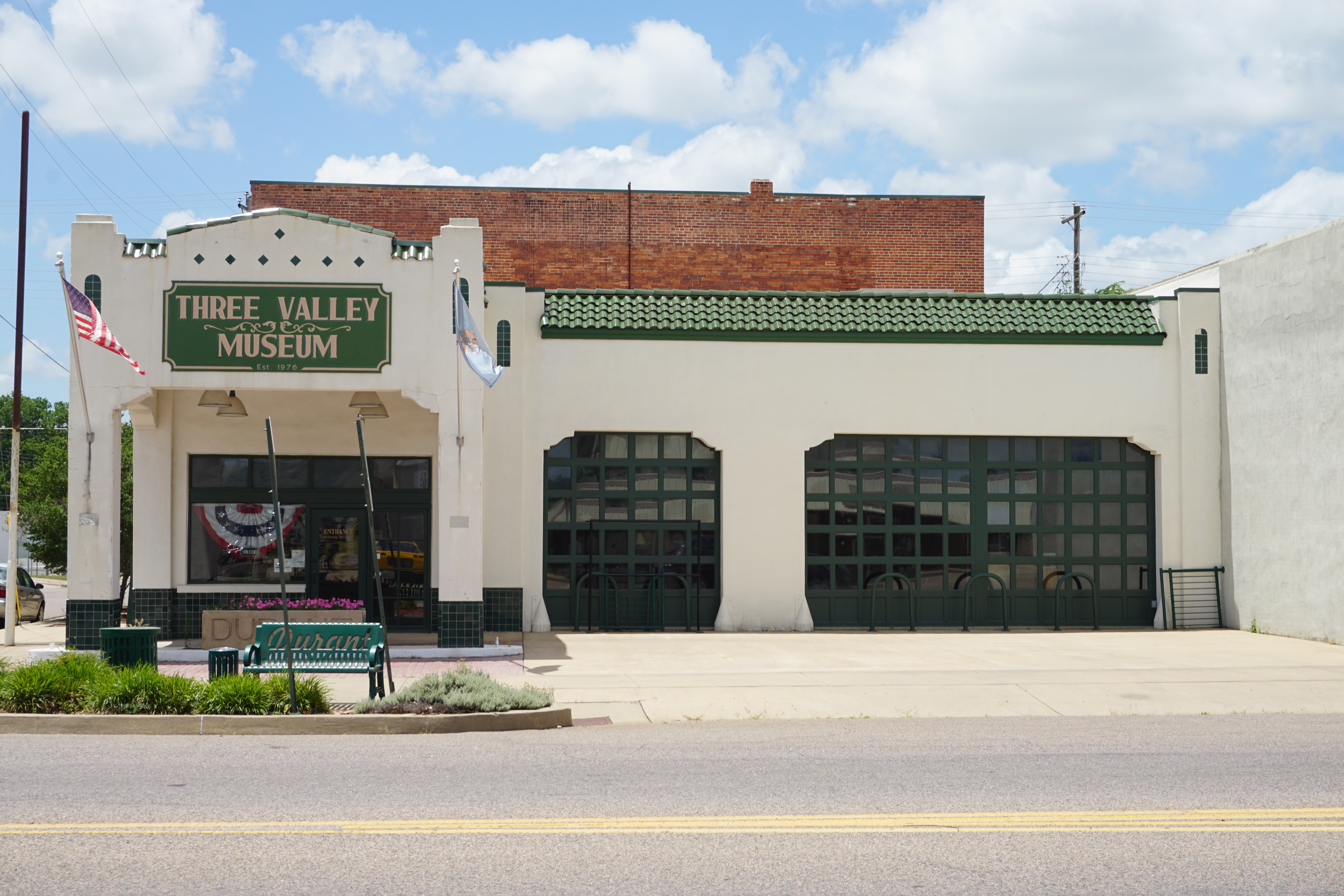 The Three Valley Museum in Durant, Oklahoma (United States).